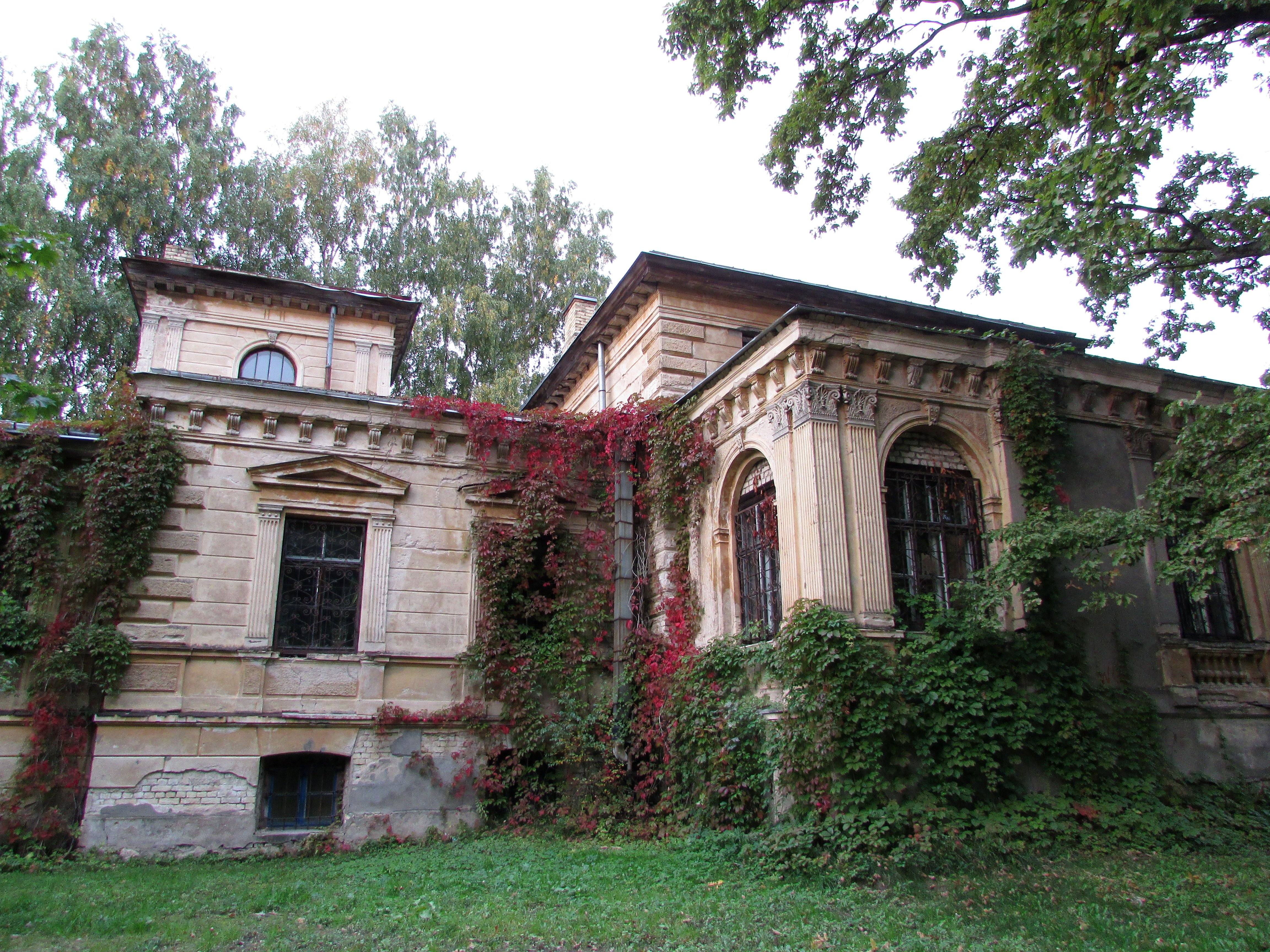 Anninmuiza manor in Riga